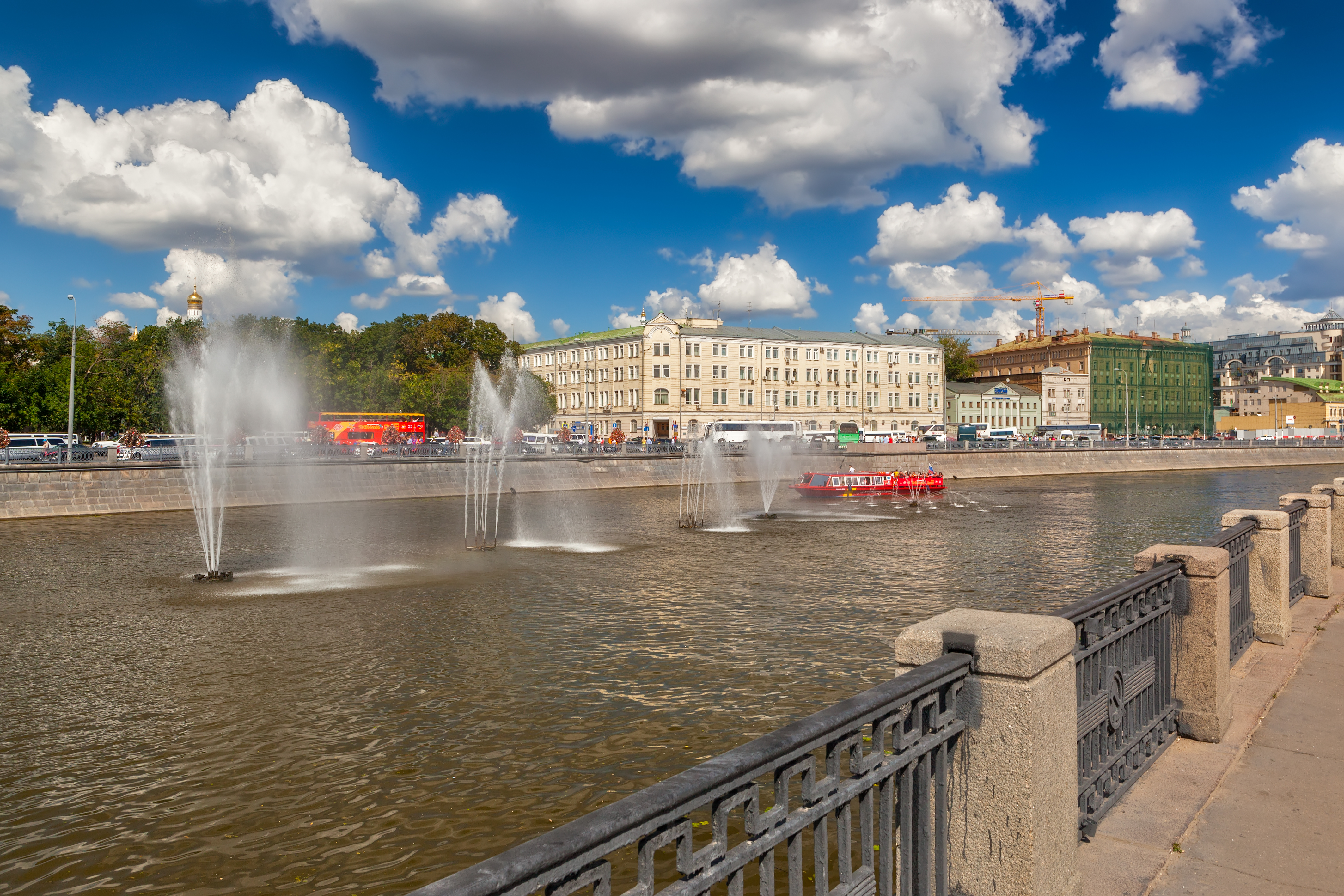 View to Bolotnaya square from Kadashevskaya Embankment